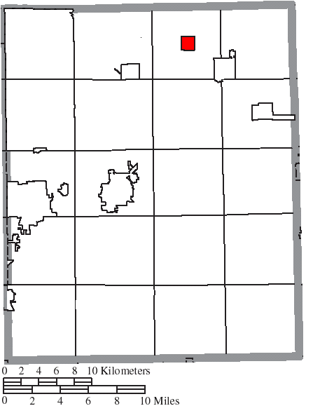 Map of the municipal and township boundaries of Portage County, Ohio, United States, as of the 2000 census, with the location of the village of Hiram highlighted. Township borders are shown only in unincorporated areas in order to differentiate incorporated and unincorporated areas more clearly.